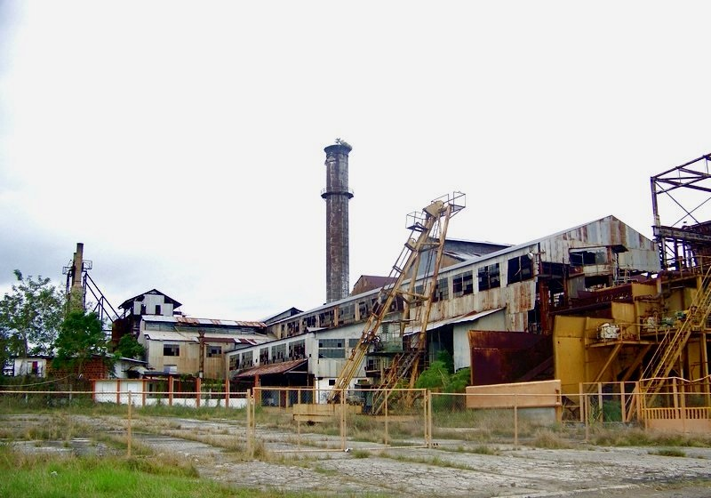 Comenzó como La Hacienda Caño Las Nasas allá para el 1830. Se convirtió en la segunda central azucarera establecida en Puerto Rico en 1875. Mientras fue propiedad de los Hnos. Vadi el azúcar y el ron producido les produjo buenos precios por su calidad. Fue comprada por los franceses en 1904 y finalmente vendida a la familia Bianchi. Se declaró en quiebra en 1921 y se convirtió en la Central Coloso Inc. bajo una reorganización. Fue vendida al Gobierno de Puerto Rico en 1977 y fue la última central en Puerto Rico en moler y producir azúcar. Cerró sus puertas en 2002. Información sobre Aguada en